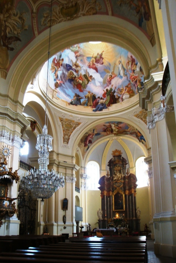 Hejnice, Church of Visitation, interior